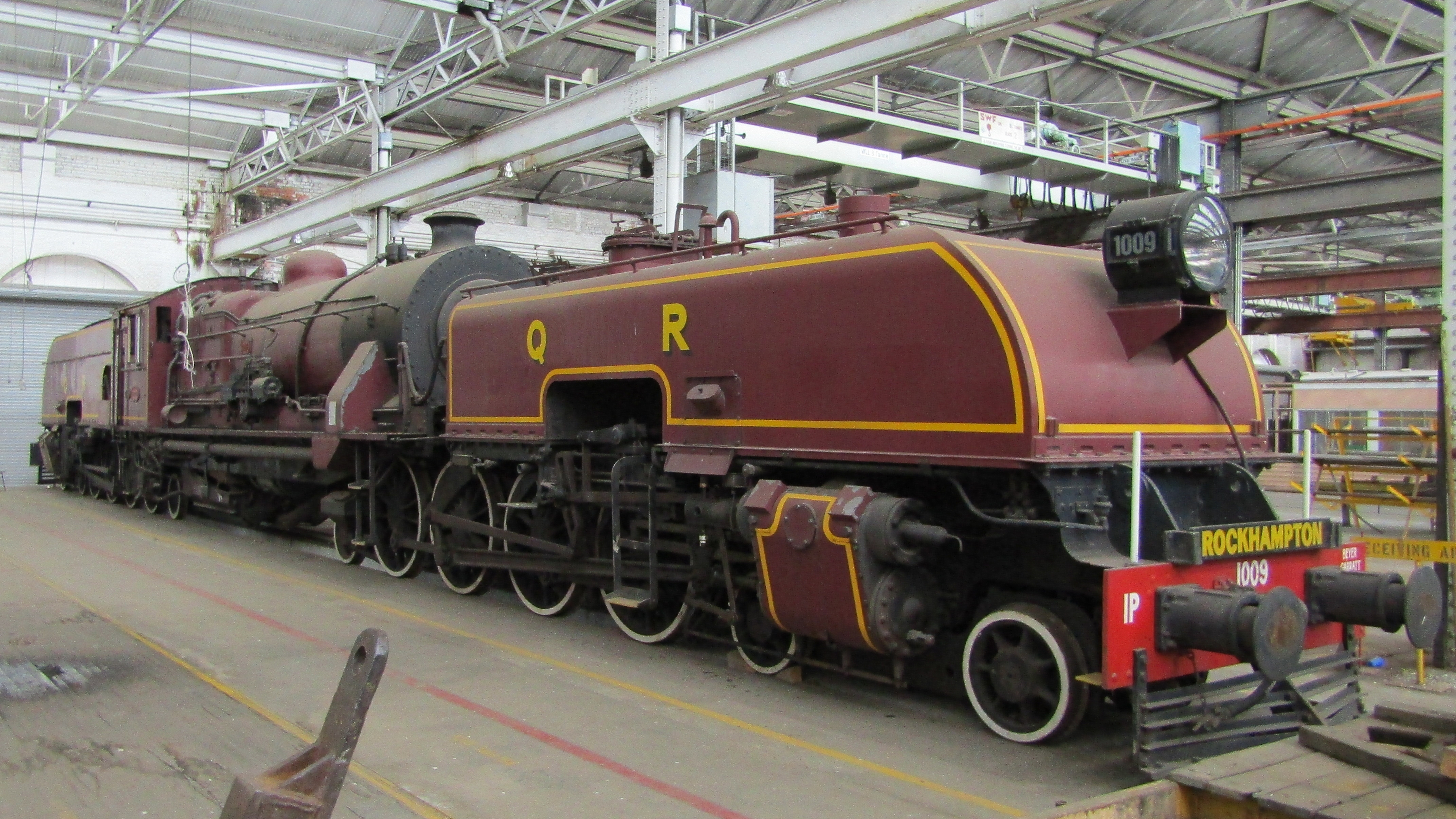 Garratt 1009 stored at North Ipswich